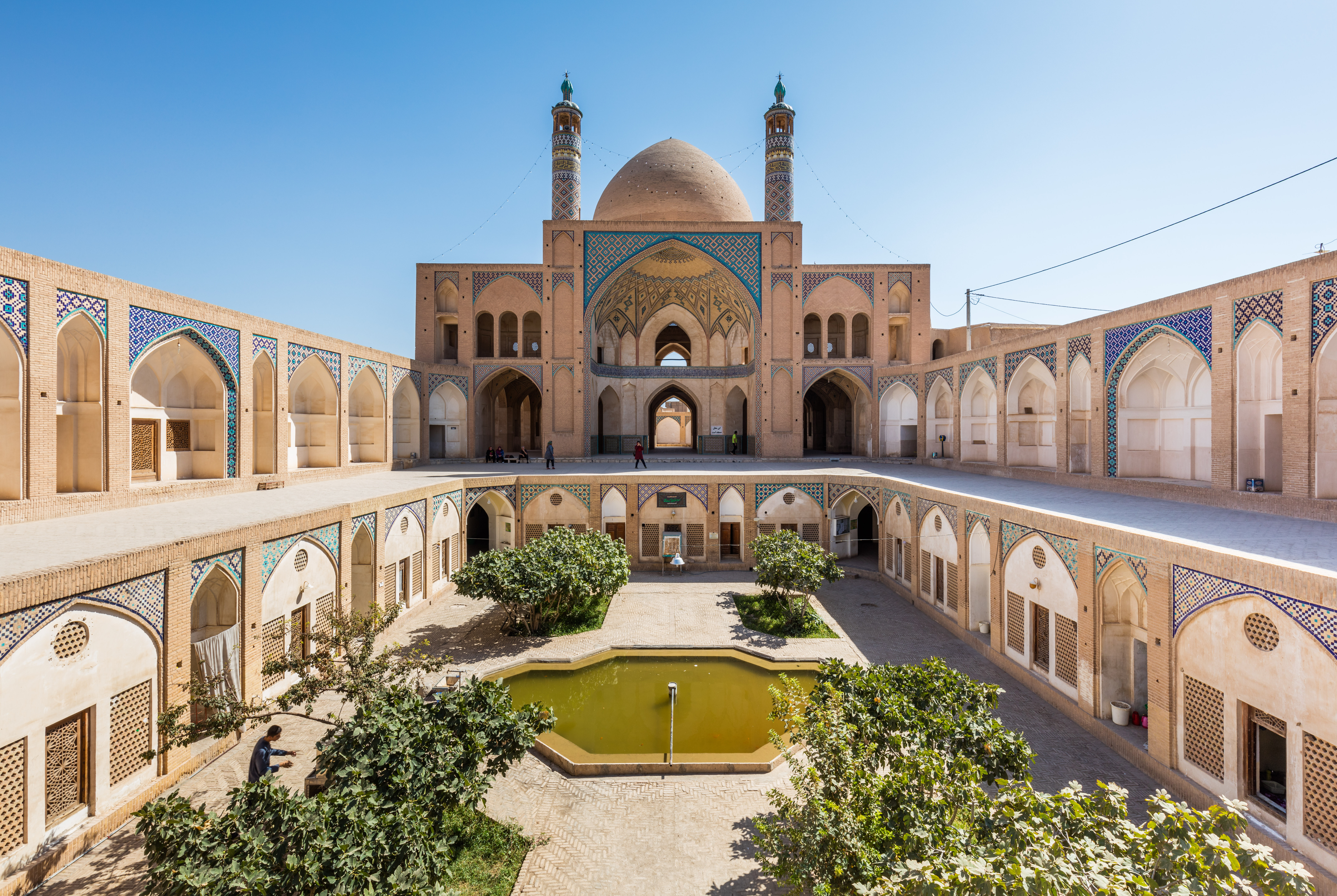 Overview of the courtyard of the Agha Bozorg mosque, a historical mosque in Kashan, Iran. The mosque, located in the center of the city, was built in the late 18th century by master-mimar Ustad Haj Sa'ban-ali. The mosque consists of two large iwans, one in front of the mihrab and the other by the entrance and the courtyard in the middle.